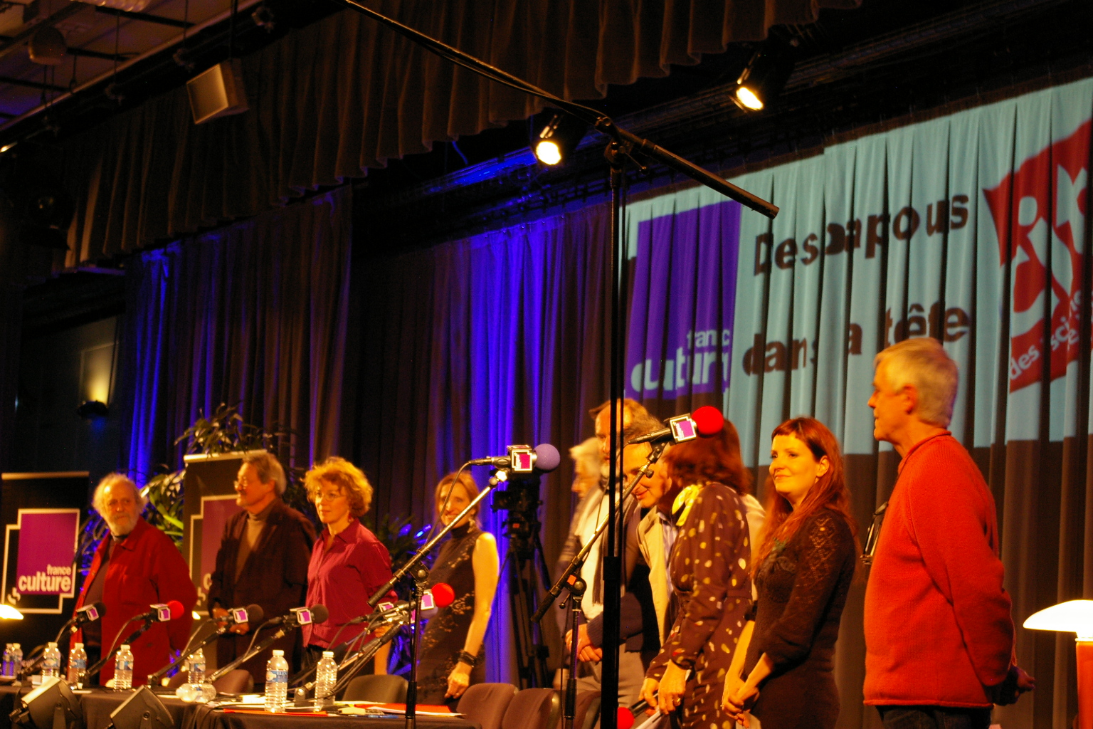 Live Radio broadcast France-Culture in La Villette Museum